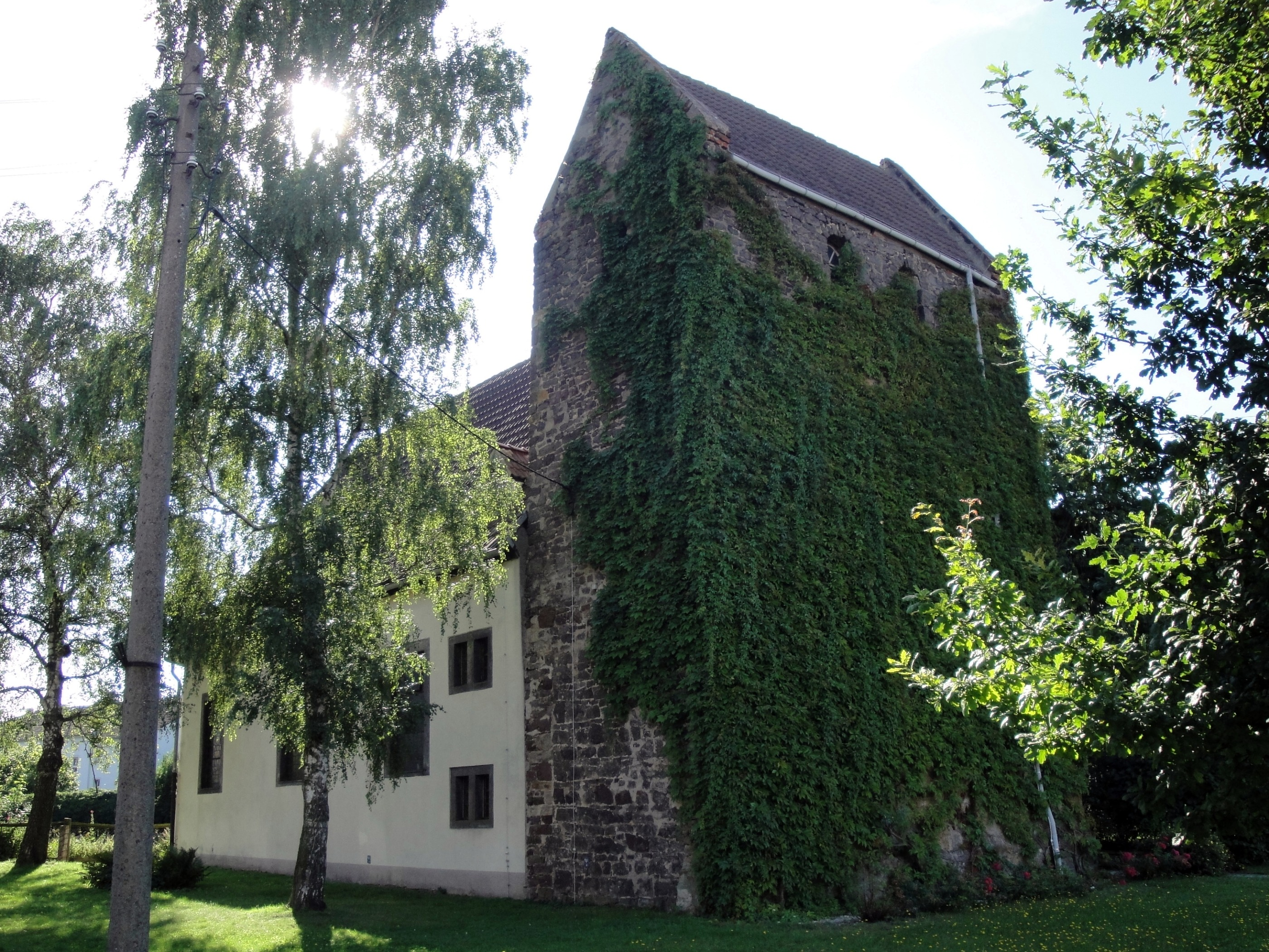 Protestant church in Mammendorf (Hohe Börde), Germany